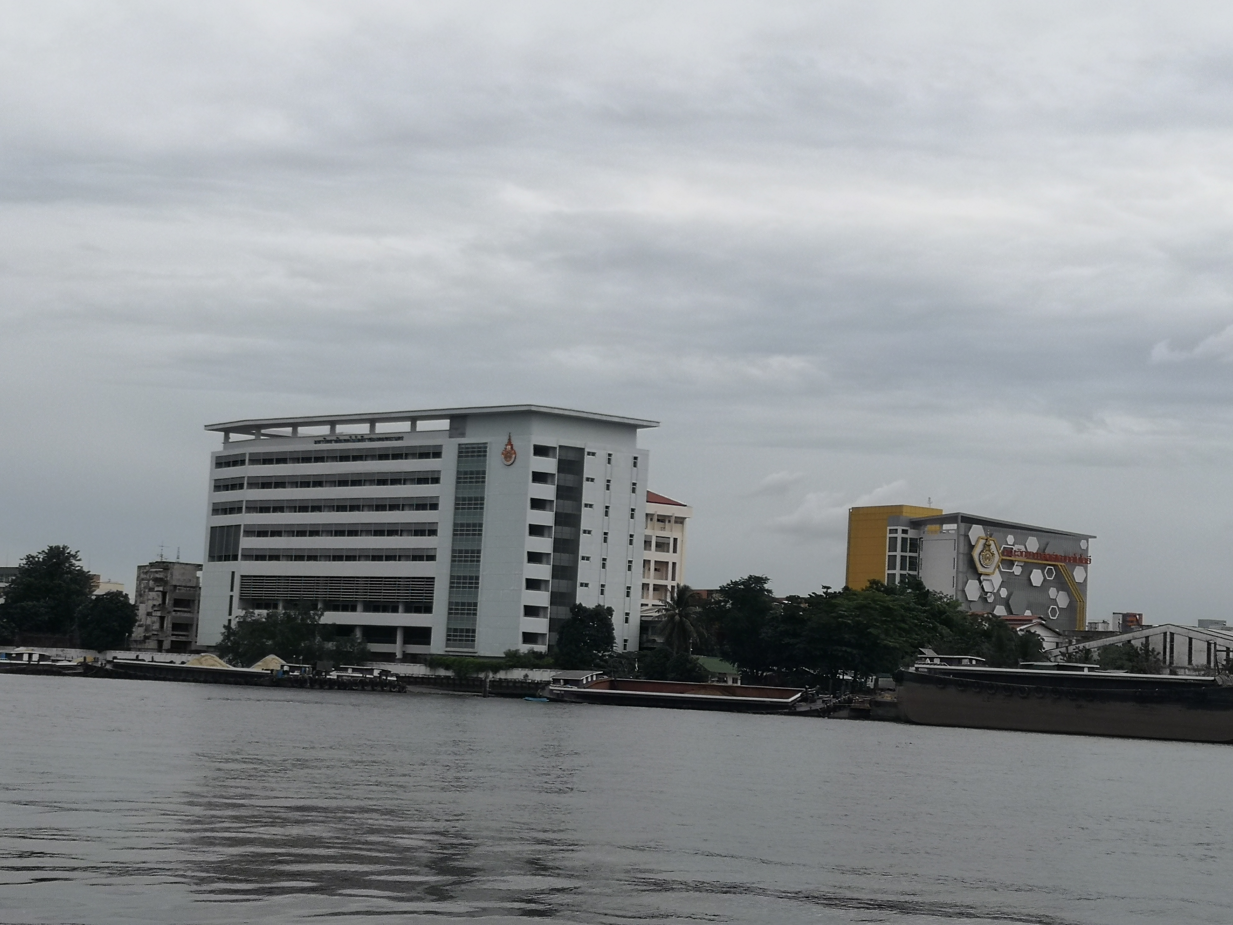 King Mongkut's University of Technology North Bangkok (view from Chao Phraya River)